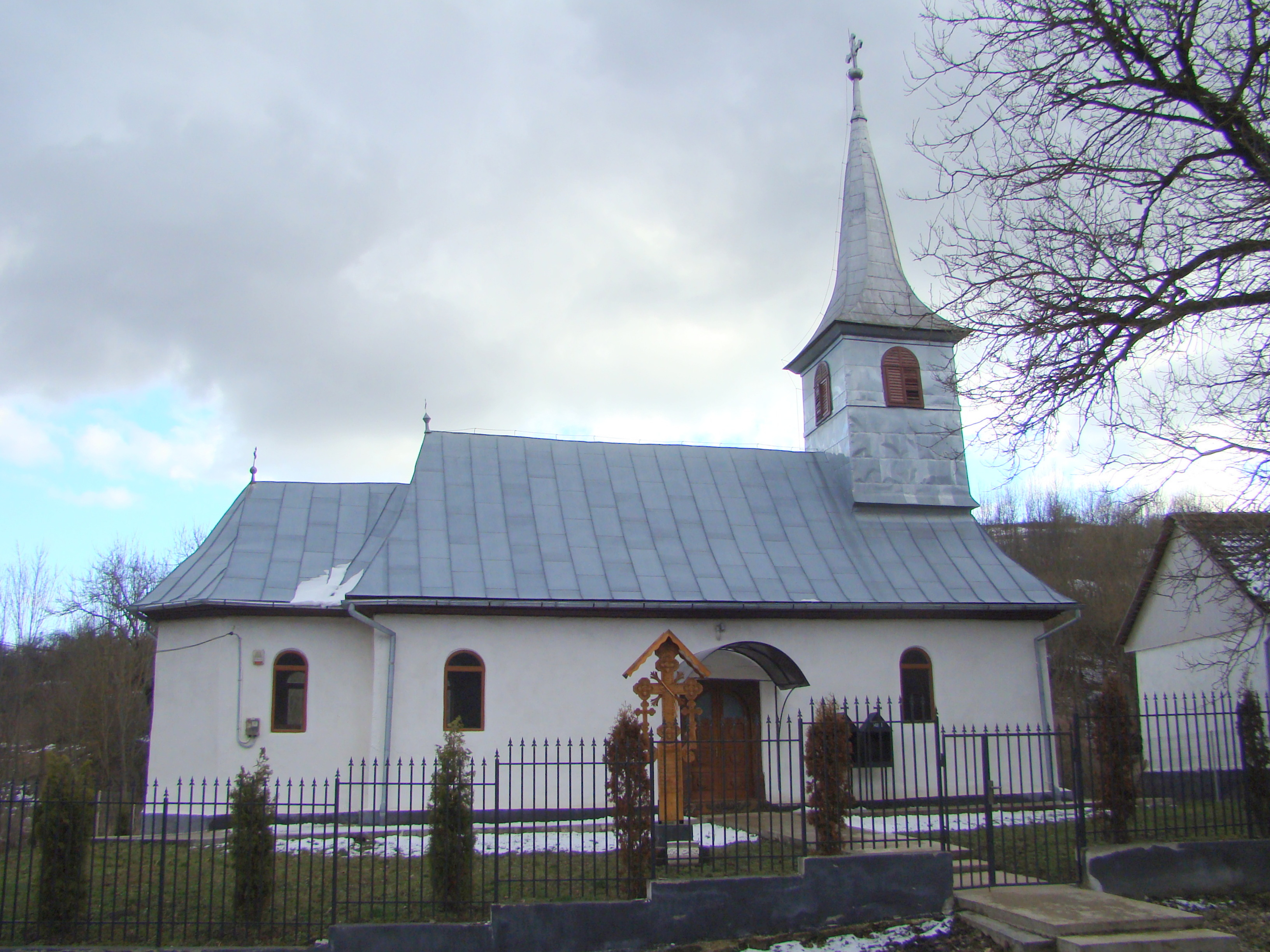 Wooden church in Nețeni, Bistrița-Năsăud county, Romania